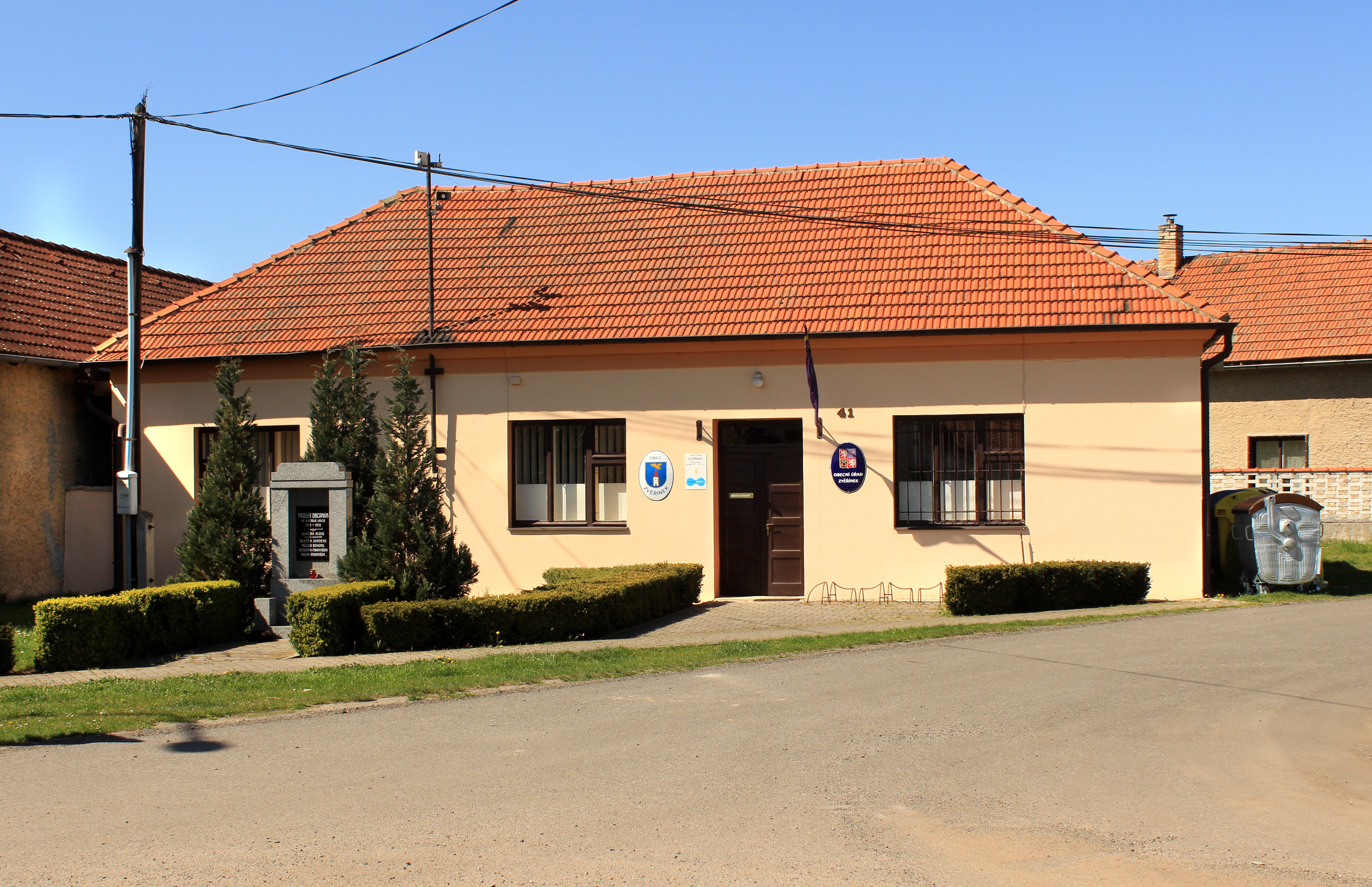 Municipal office in Zvěřínek, Czech Republic.